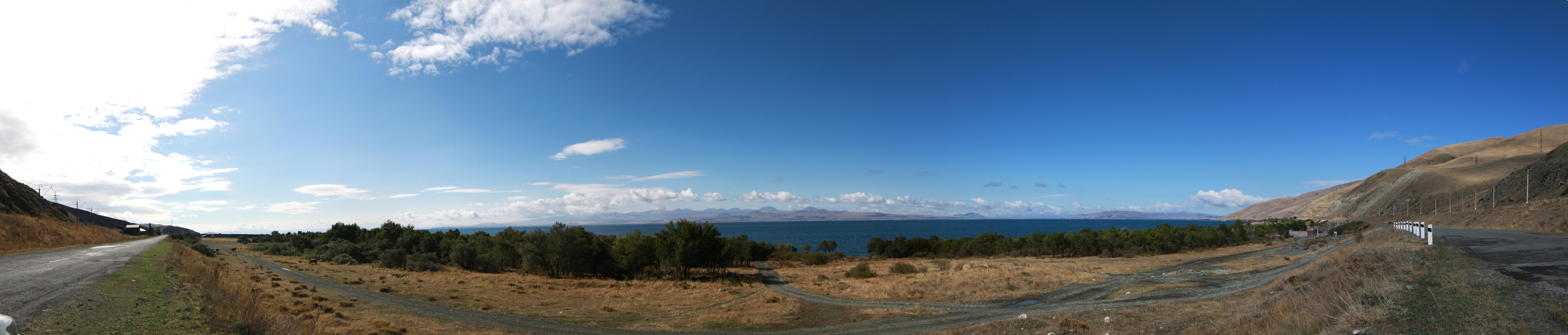 Panorama of Lake Sevan, Armenia from highway running along eastern shore near Drakhtik. Stitched using Hugin from 6 photos each at 16mm.